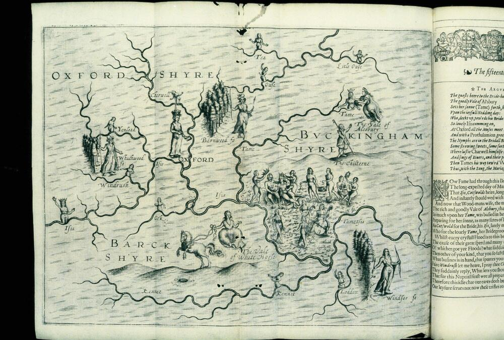 Map with figures illustrating Drayton's verses on marriage, with rivers and forests taken from Saxton, in Micheal Drayton, Poli-Olbion or a Chorographicall Description of Tracts, Rivers, Mountaines, Forests, etc.